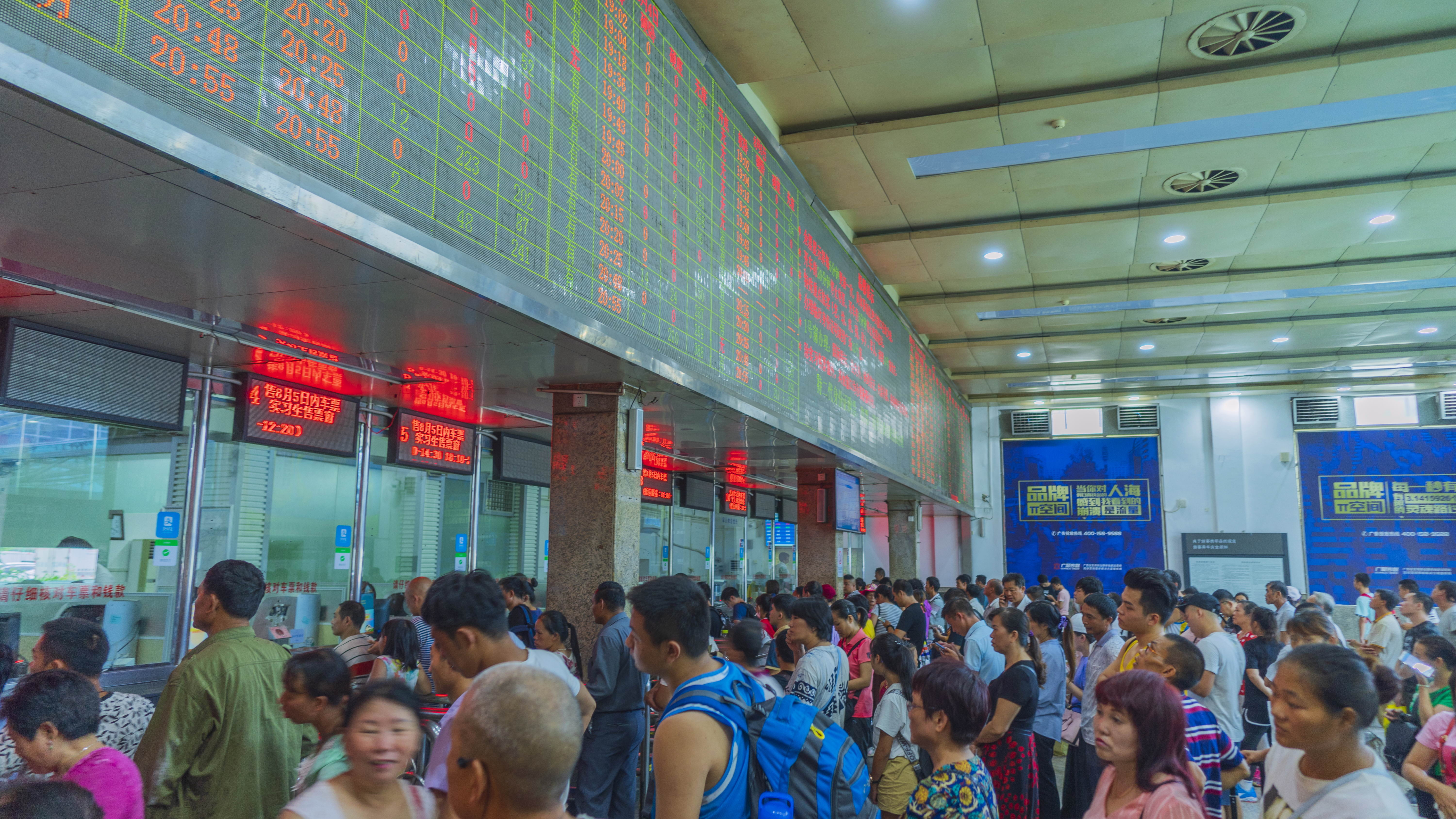 Nanning, China